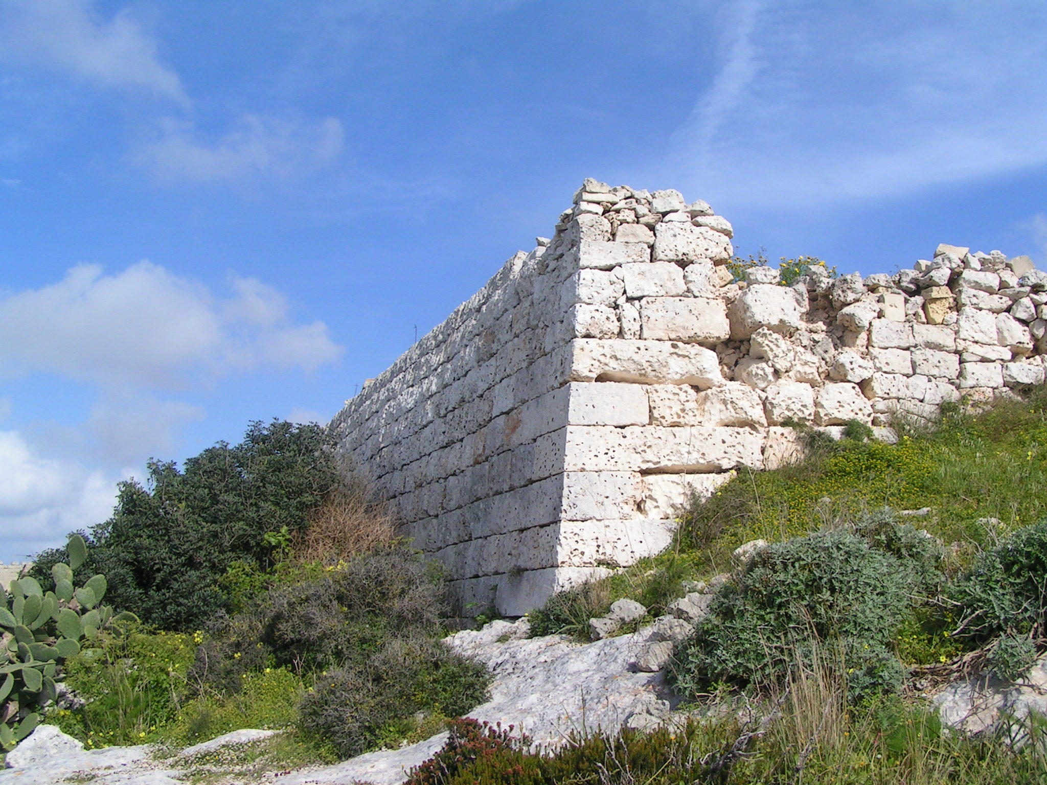 Entrenchment wall This media is about Maltese cultural property with inventory number 01425.